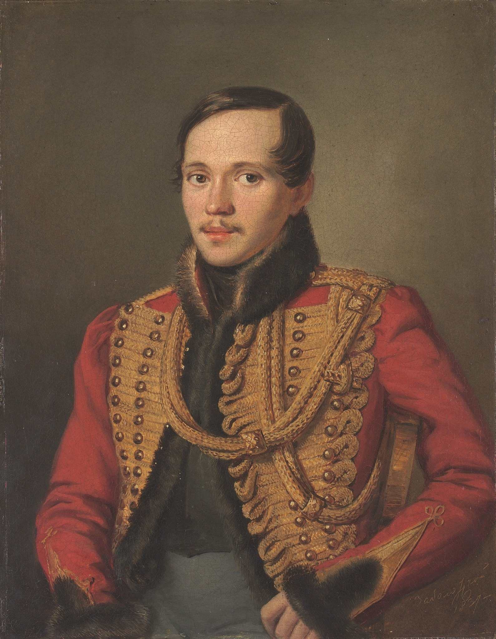 Portrait of Mikhail Yurievich Lermontov (1814—1841), Russian poet